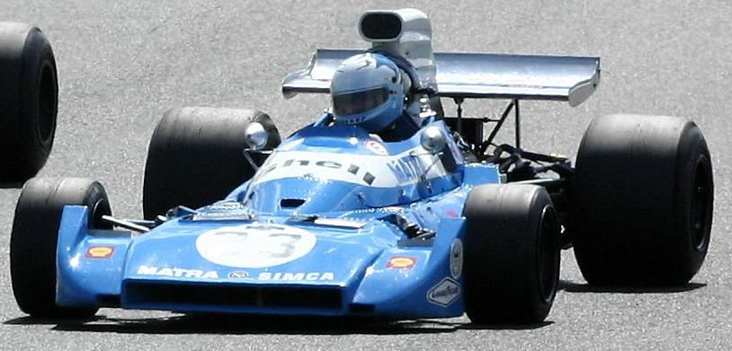 The Matra MS120D at the 2008 Silverstone Classic race meeting.